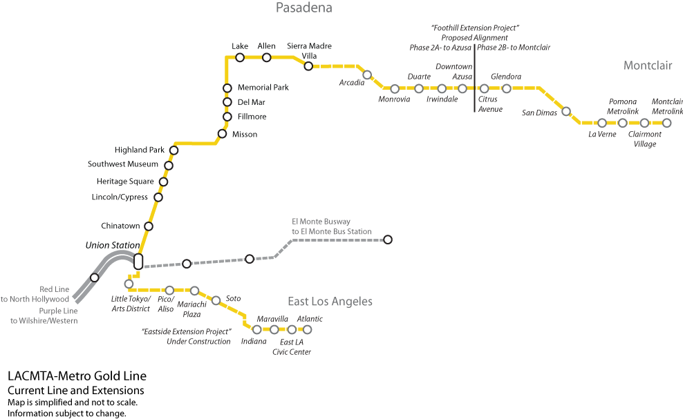 Map of the Gold Line, including future extensions, in Los Angeles County, California.